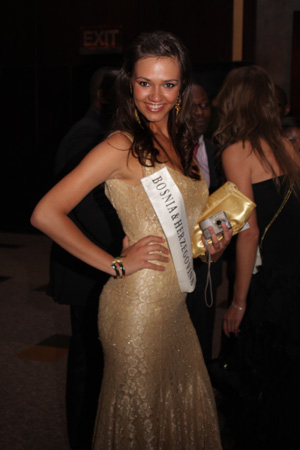 Miss Bosnia & Herzegovina 2008 Tanja Vujicic during Miss World 08